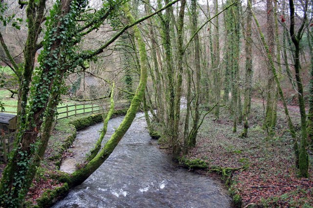 The view from the bridge downstream This is the West Looe River as seen from Churchbridge looking downstream.